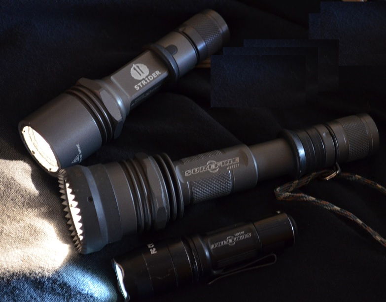 3 handheld SureFire flashlights M2 Strider, M3 w GG&G TID, and Backup LED